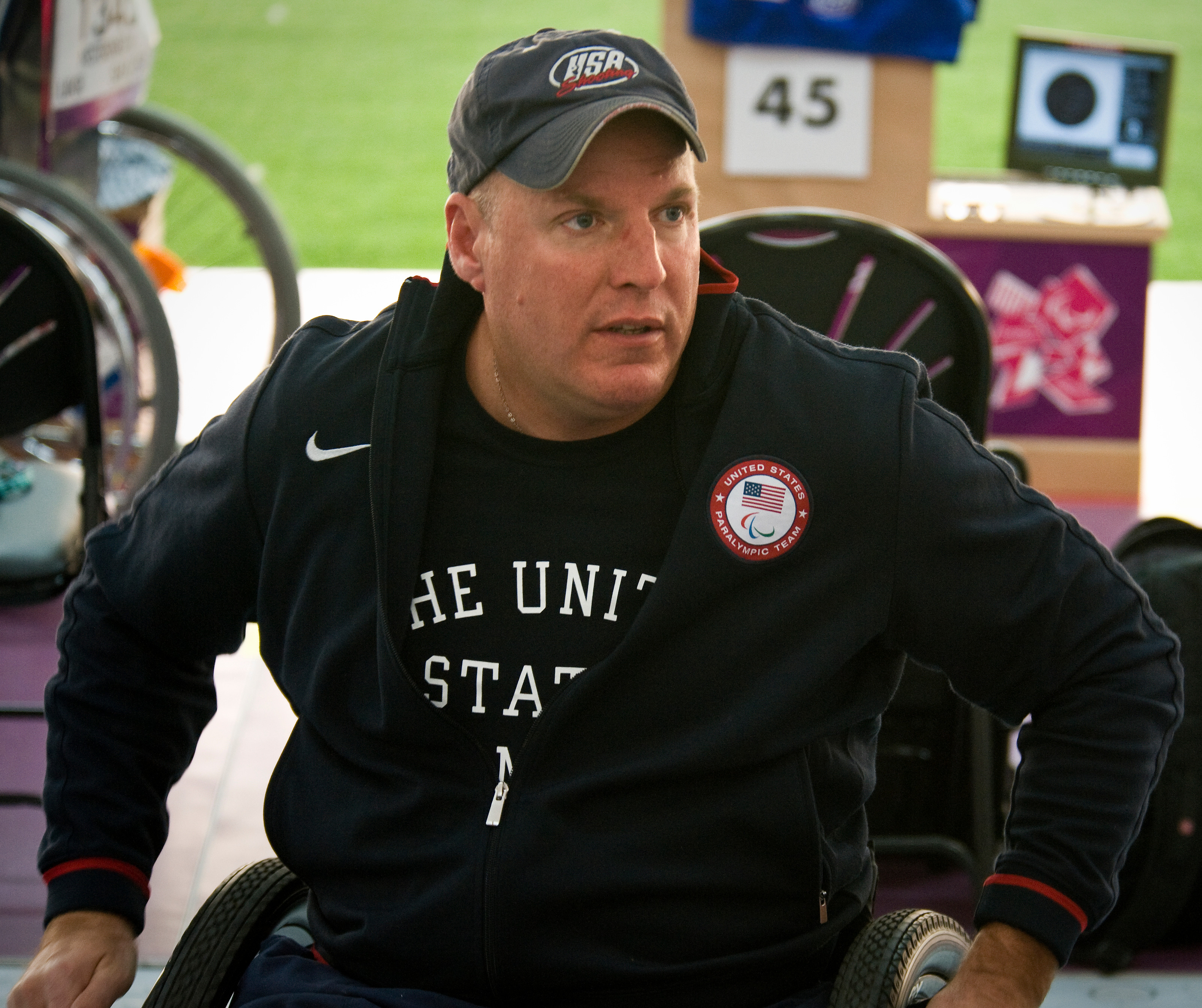 Eric Hollen, a U.S. Army veteran and Paralympic athlete, moves off the firing line after competing in a 50-meter pistol competition at the Royal Artillery Barracks in London Sept. 6, 2012, during the 2012 Paralympic Games. The Paralympics is a major international sporting event in which thousands of athletes, including wounded and injured U.S. Service members, participate in a variety of sporting events.